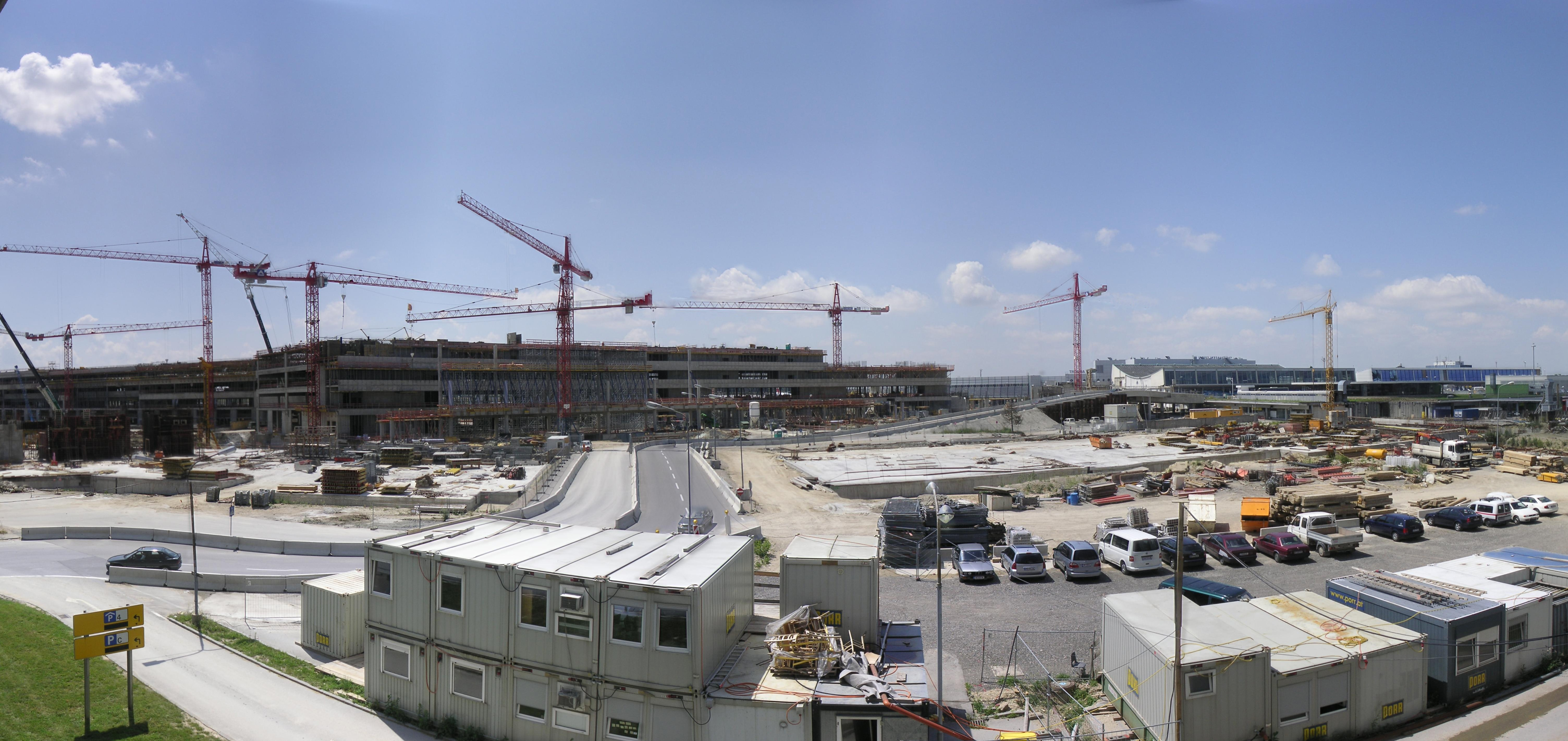 Construction of the new terminal "Sky Link" at the Airport Vienna, Austria. Photos merged with Autostich and cut in Photoshop.